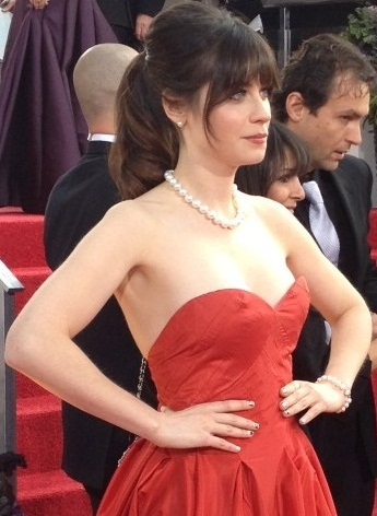 Actress Zooey Deschanel at the 2013 Golden Globe Awards